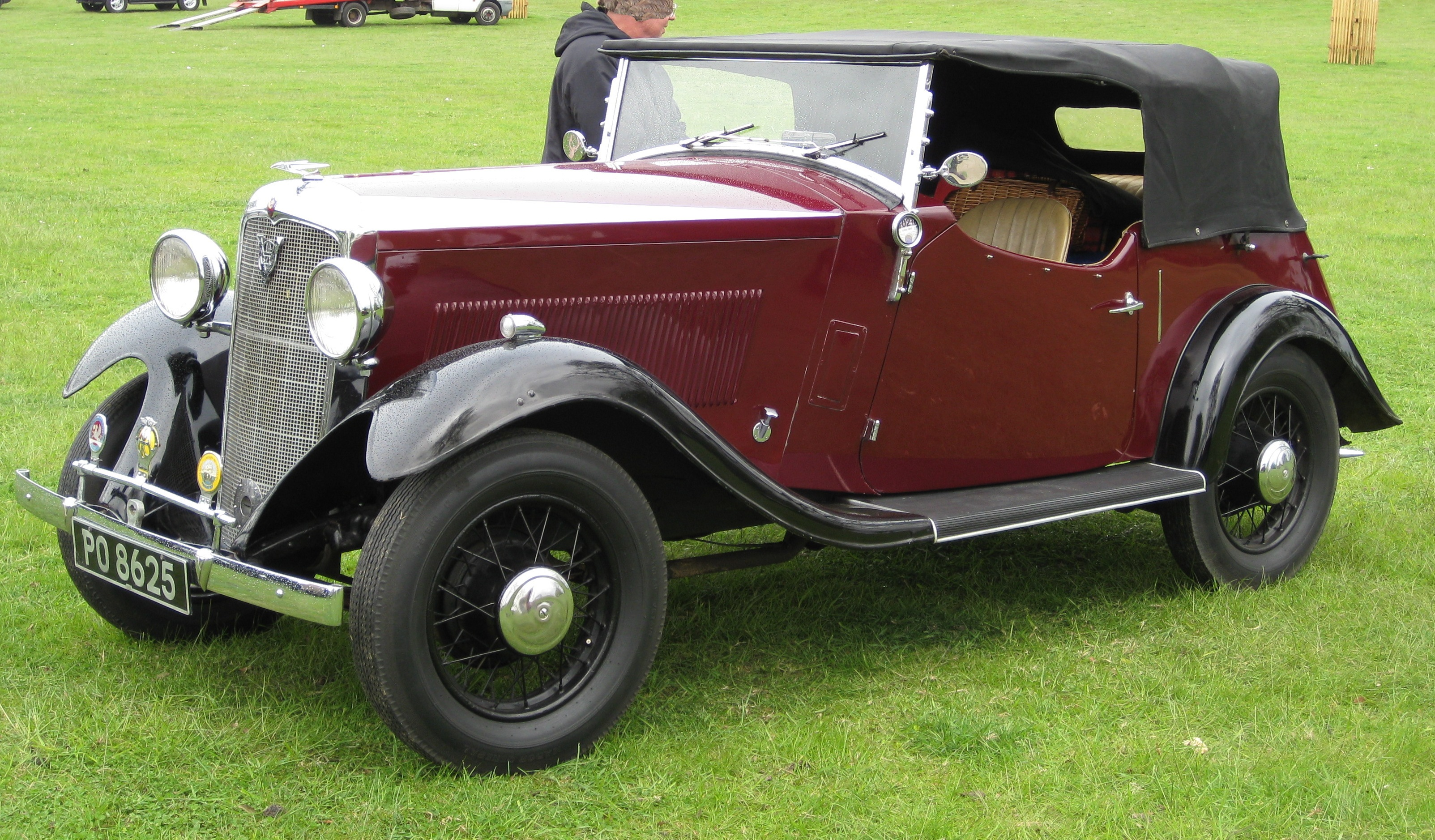 Vauxhall 14 also known as ASX (Light 6) Stratford Sports Tourer